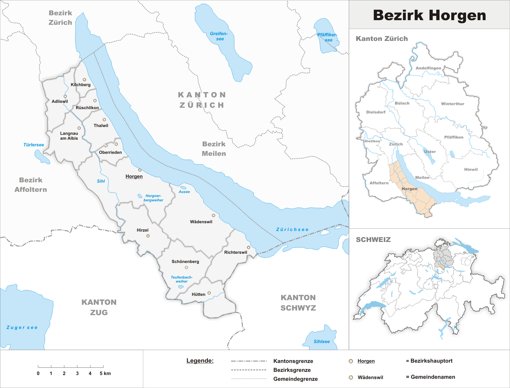 Municipalities in the district of Horgen